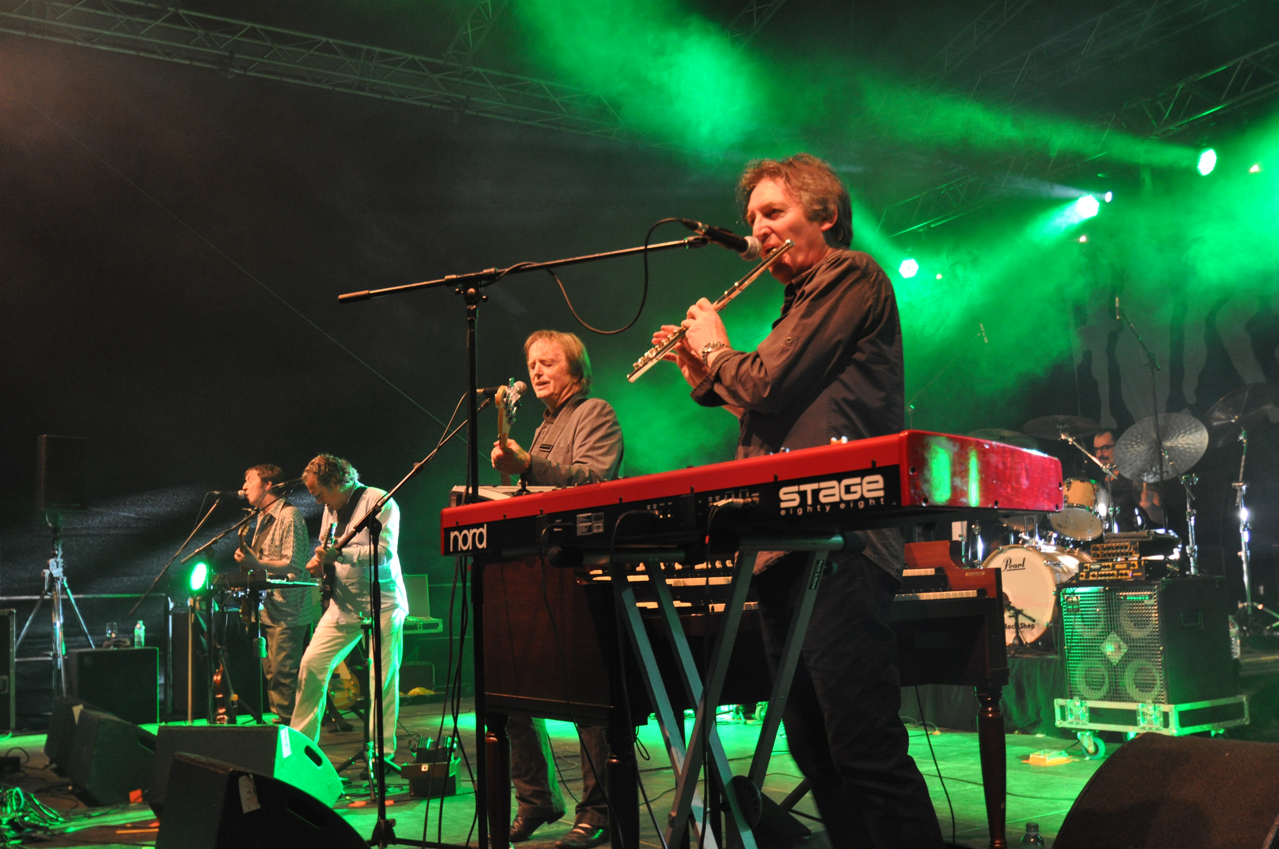 Horslips, Auftritt beim 1. blacksheep Festival 2014 im Schlosshof / Schlosspark Bad Rappenau - Bonfeld (Deutschland)